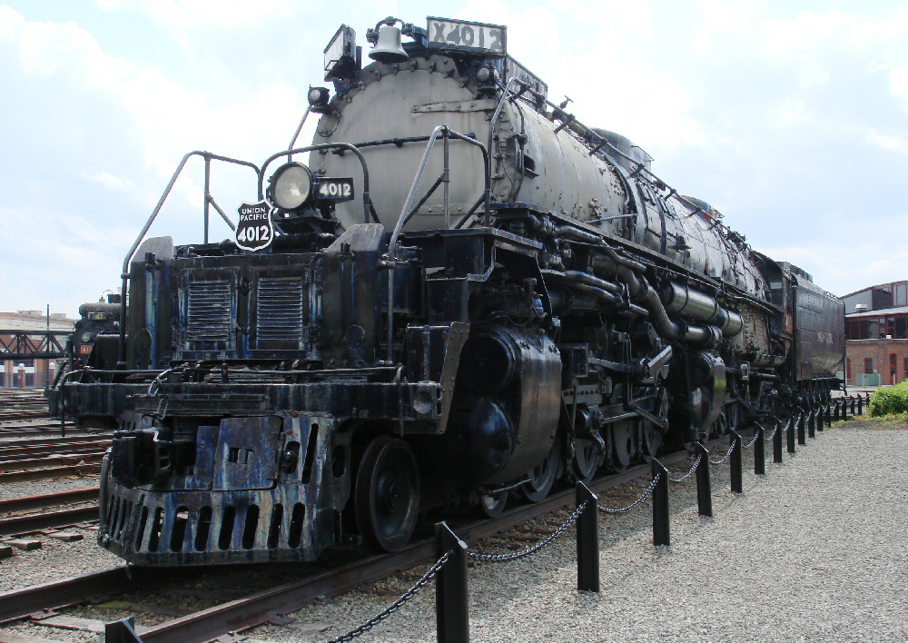 Union Pacific Big Boy, in Steamtown, Pennsylvania